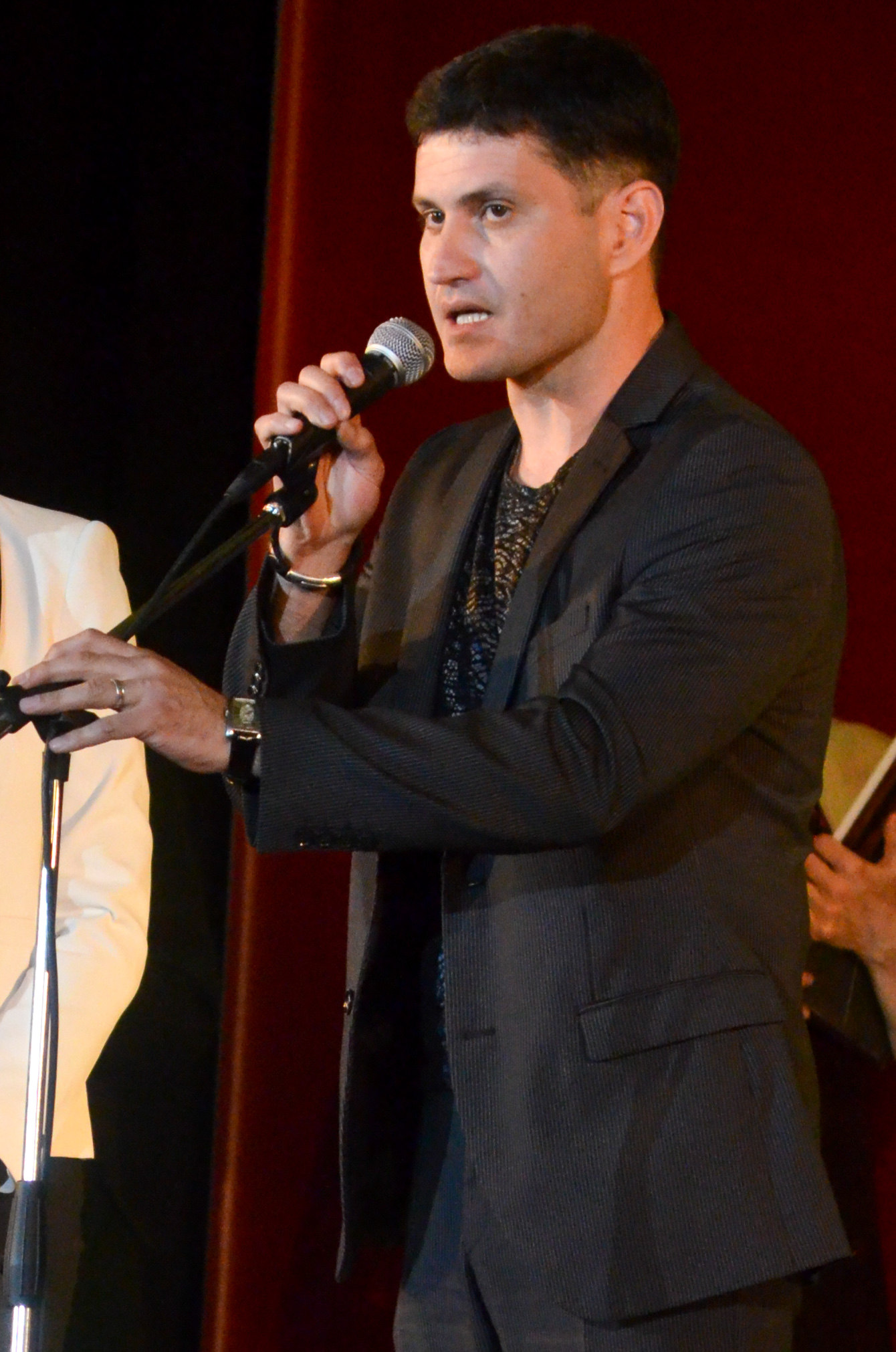 "Koronatsiya Slova 2014" awards ceremony, Kyiv, Ukraine.